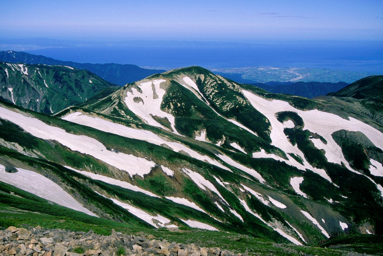 Mount Hachi seen from Mount Korenge in Ushirotateyama Mountains, Japan.